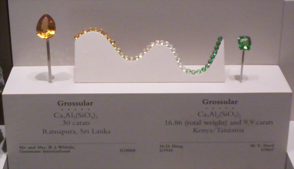 Garnet Grossular is available in multiple shades... This curve demonstrates some of the many hues. National Museum of Natural History in Washington, DC